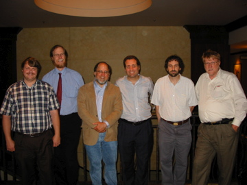 Judges from the 1st annual University Voting Systems Competition. From left to right: John Kelsey, Doug Jones, Ron Rivest, Eric Lazarus, Josh Benaloh, and Paul Miller